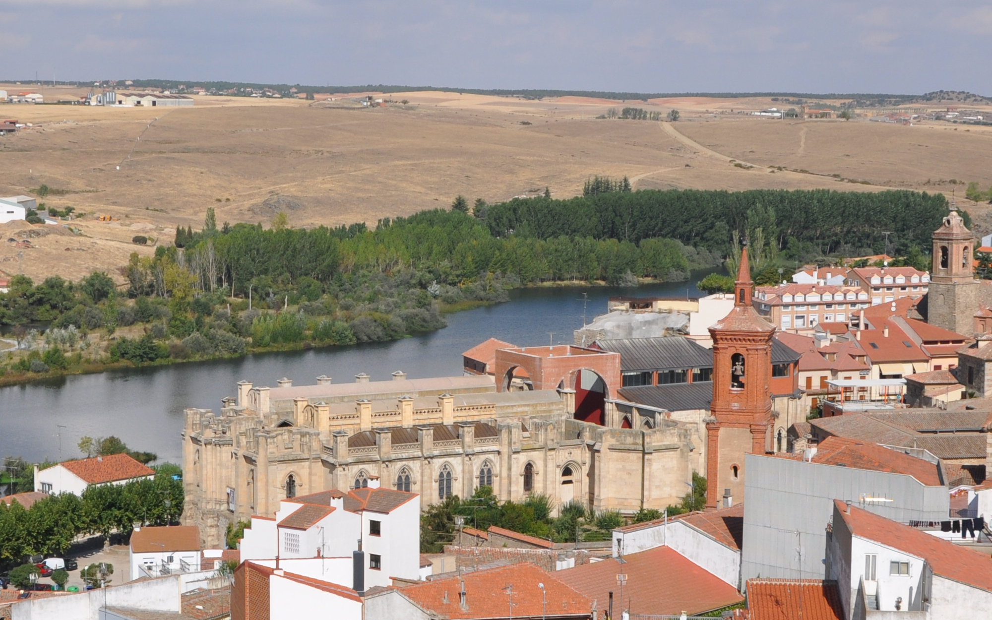 Basilica of Santa Teresa, Alba de Tormes, province of Salamanca, Spain.